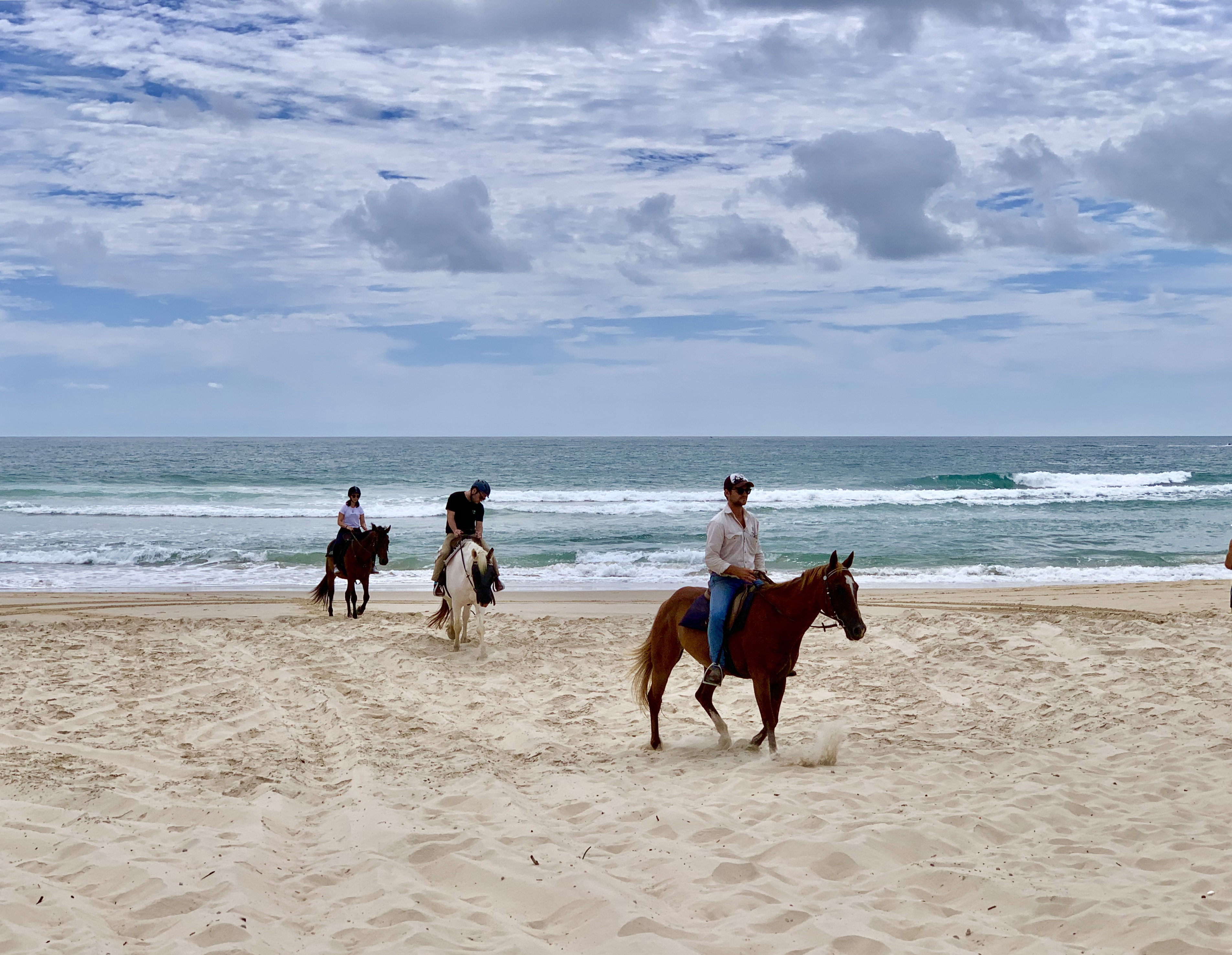 Recreational horse riding on Noosa North Shore beach, Queensland, January 2019